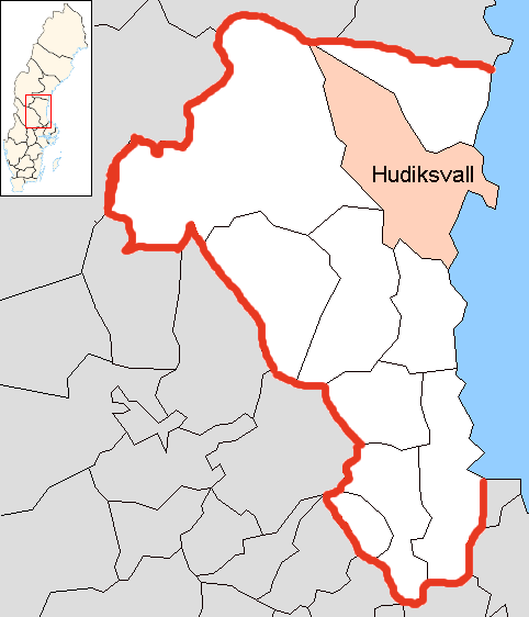 Hudiksvall Municipality in Gävleborg County Designd by me, based on Image:Gävleborg County.png